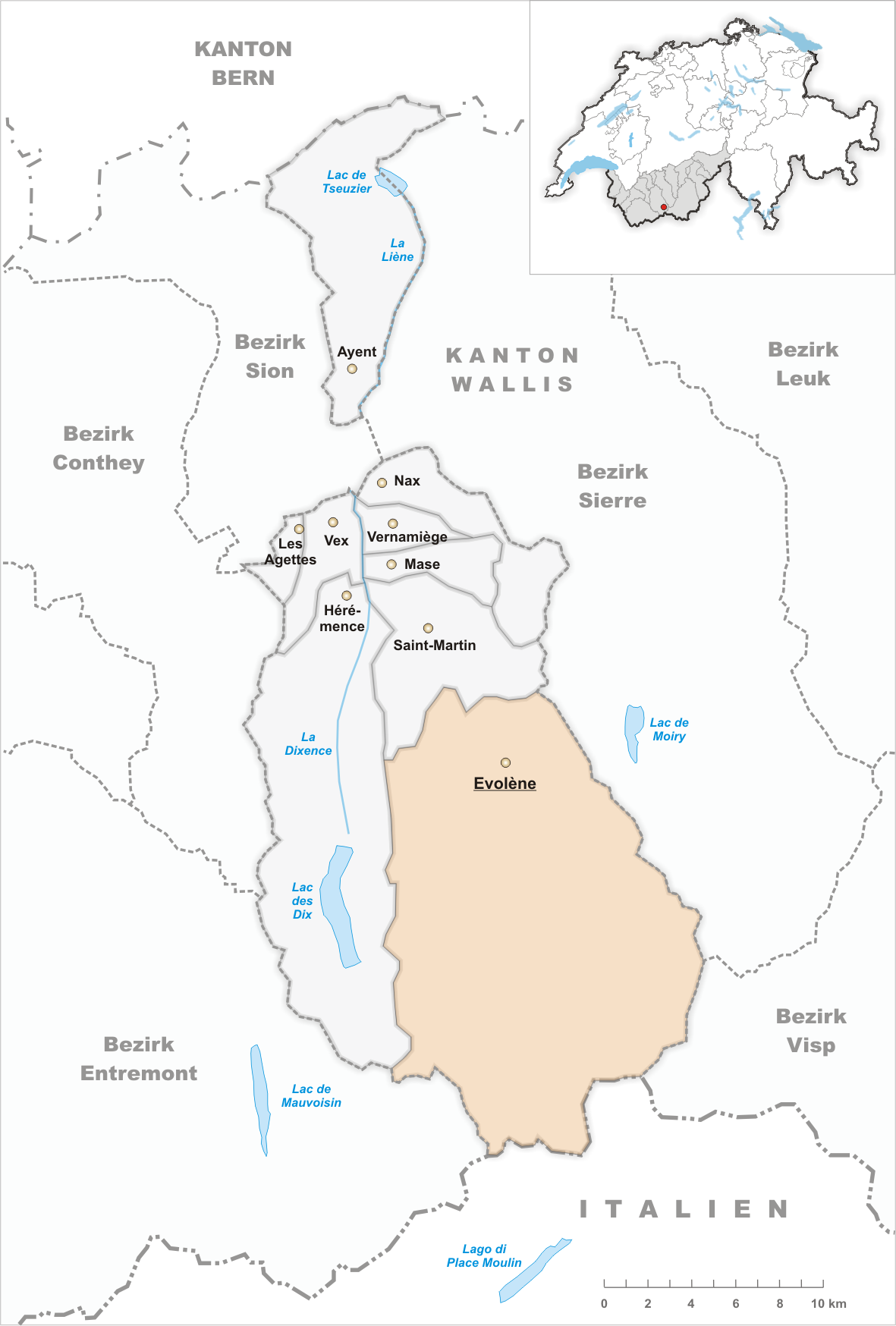 Municipality Evolène